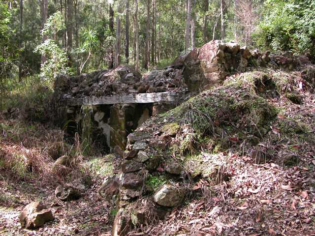 Pipers Creek Lime Kilns: Lime Kiln K